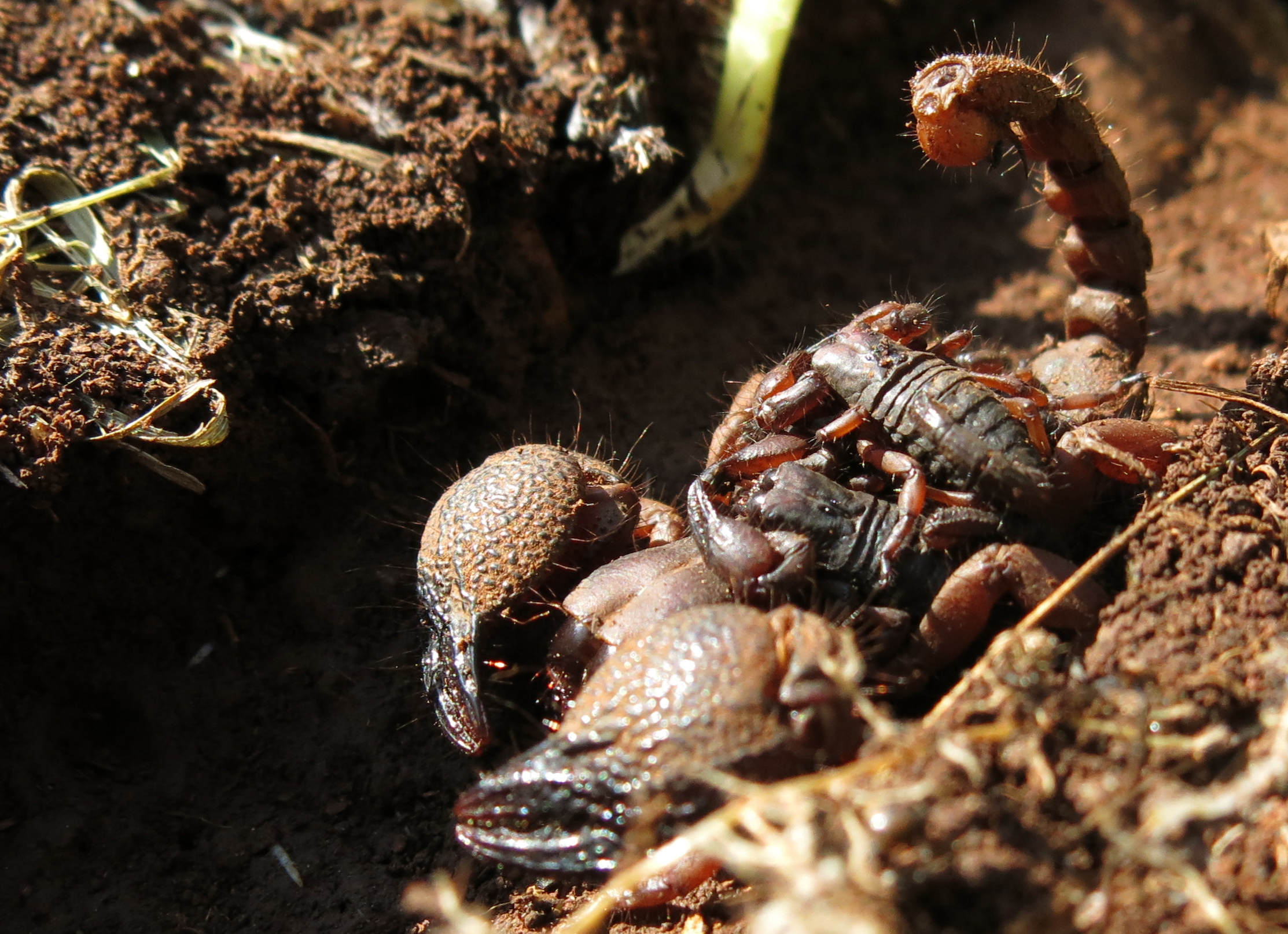 Opistophthalmus pugnax with young, Johannesburg, South Africa